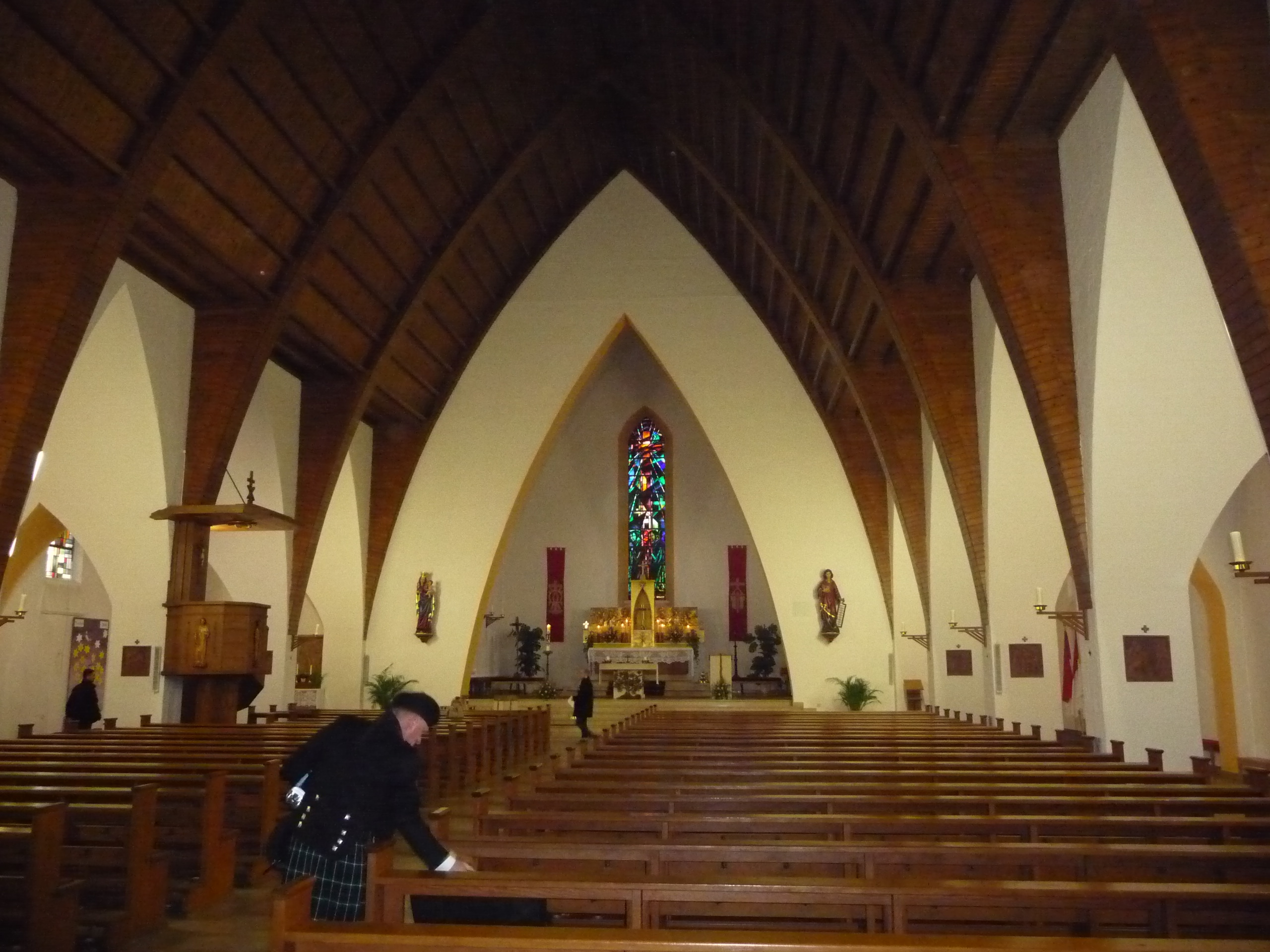 Laurentiuskirche Schifferstadt